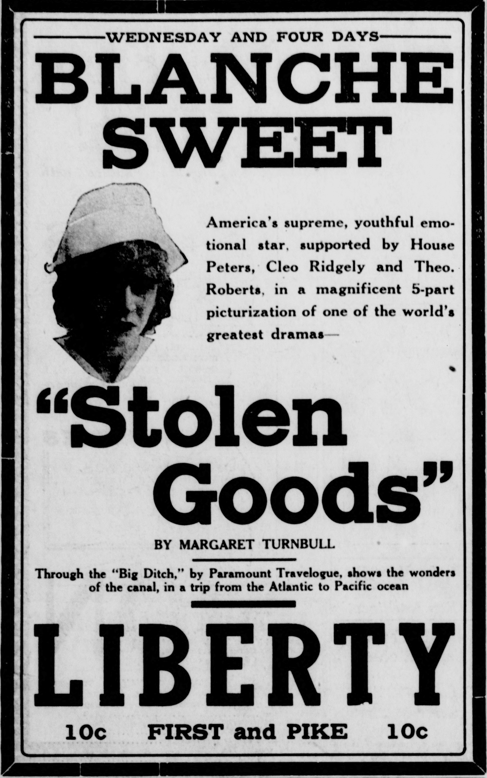 Stolen Goods is a 1915 American drama silent film directed by George Melford and written by Margaret Turnbull. This is a newspaper advert for the film.